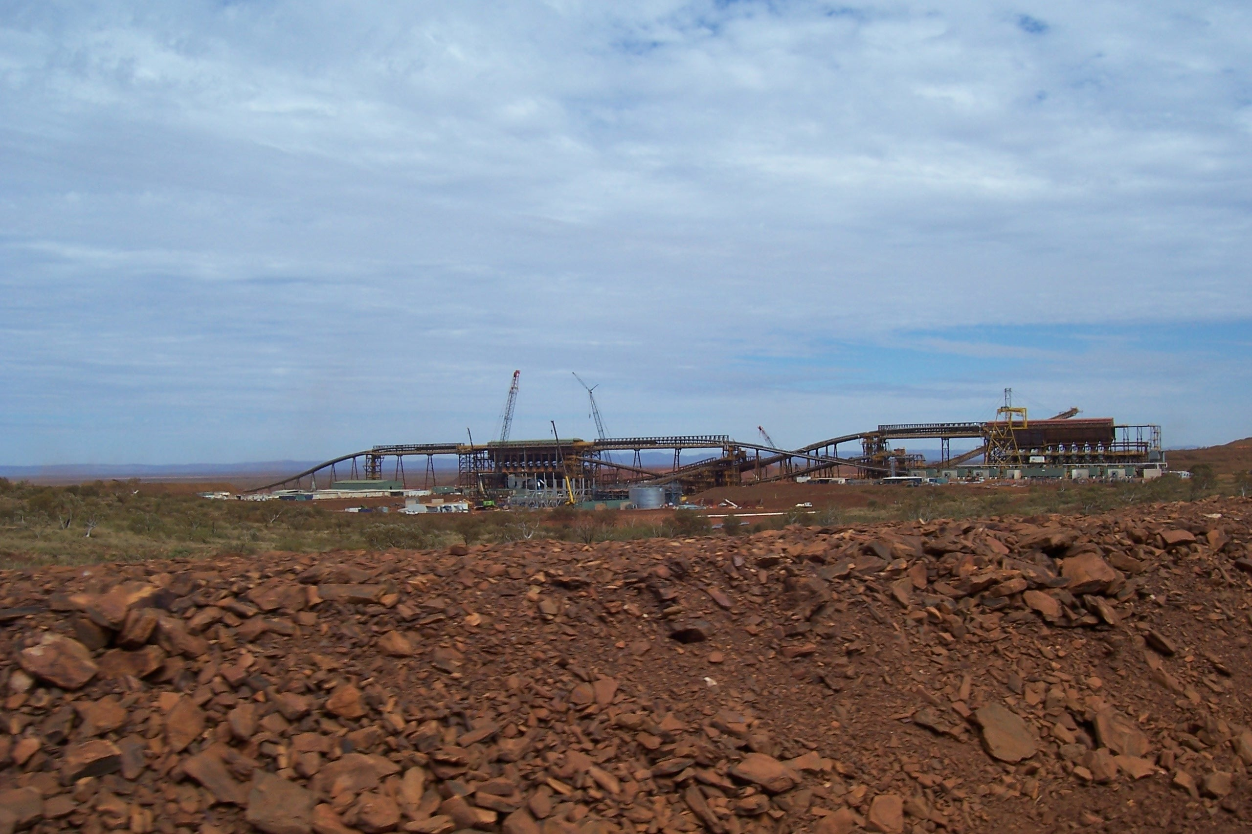 Photo of Cloudbreak Mine on Fortescue Metals Group rail line south of Port Hedland, Western Australia. Not long after commencing production. August 2008.